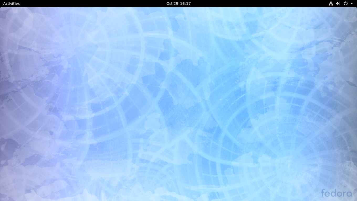 Screenshot of Fedora 31